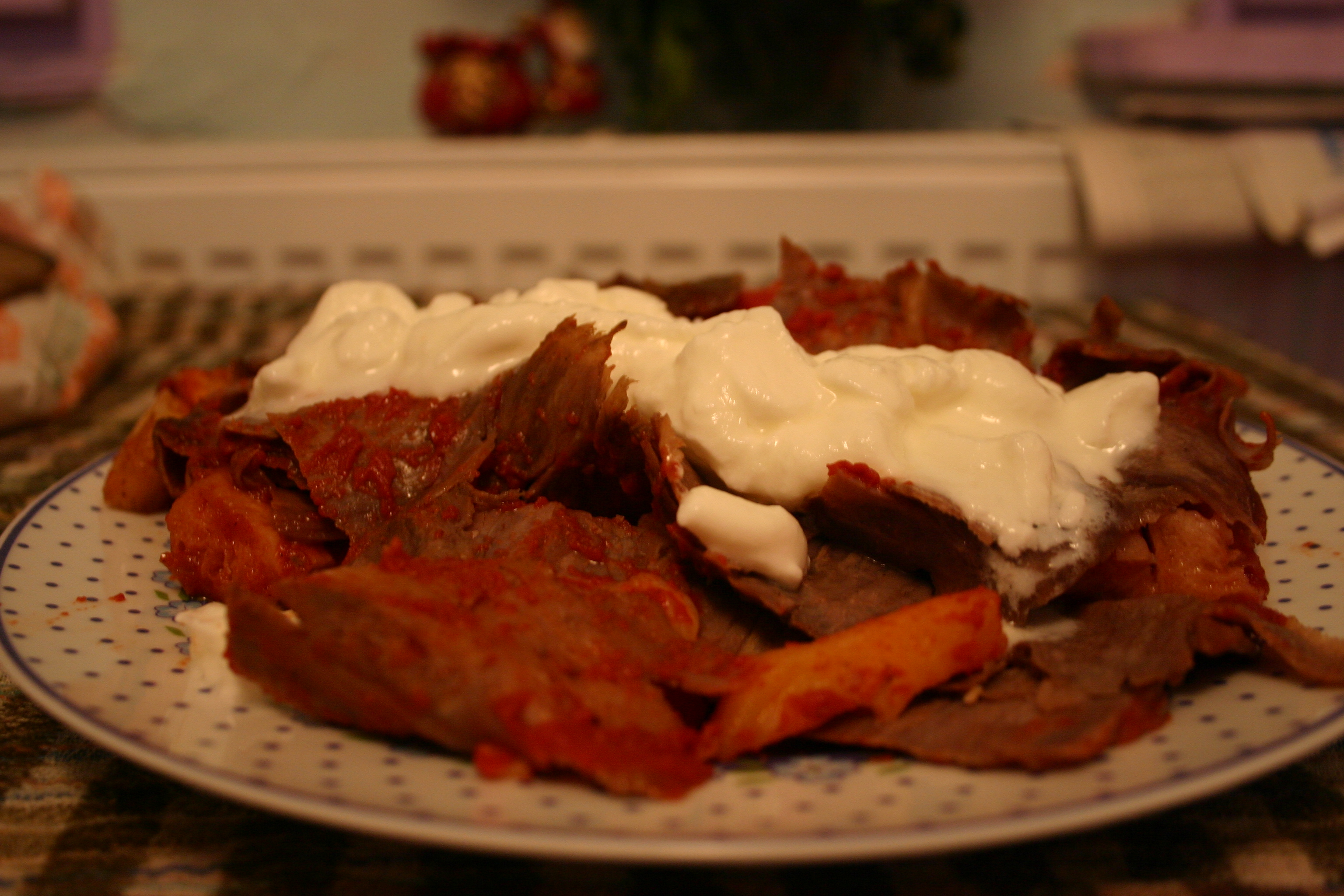 Turkish Iskender Kebab. Photo by Bertil Videt. The object ceased existing shortly after the photo was captured.